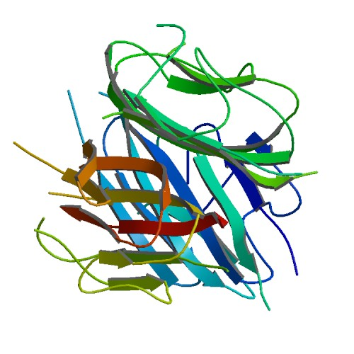 (PDB: 1C28)